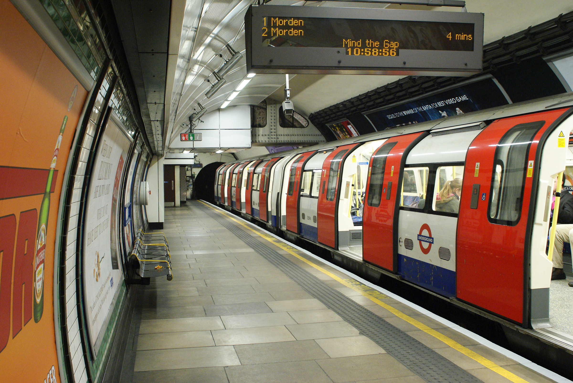 A southbound Northern line train at Elephant & Castle awaiting departure for Morden. View looking south.